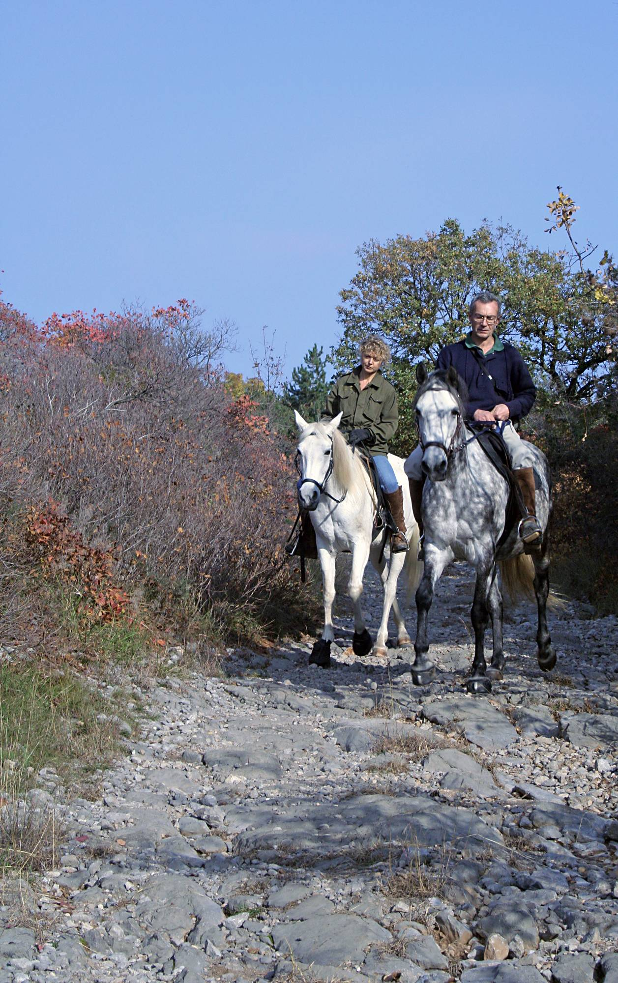 Two barefoot mares into a rocky trail (Monfalcone, Italian Karst)